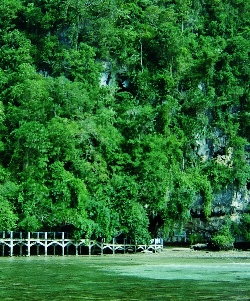 entrance to Tabon cave